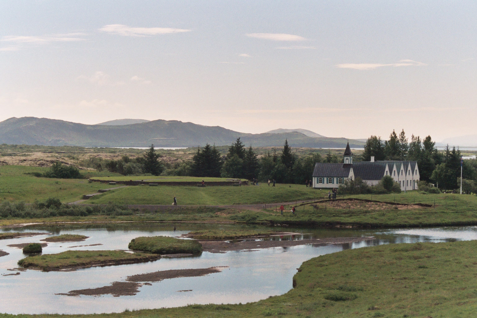 Þingvellir, Iceland